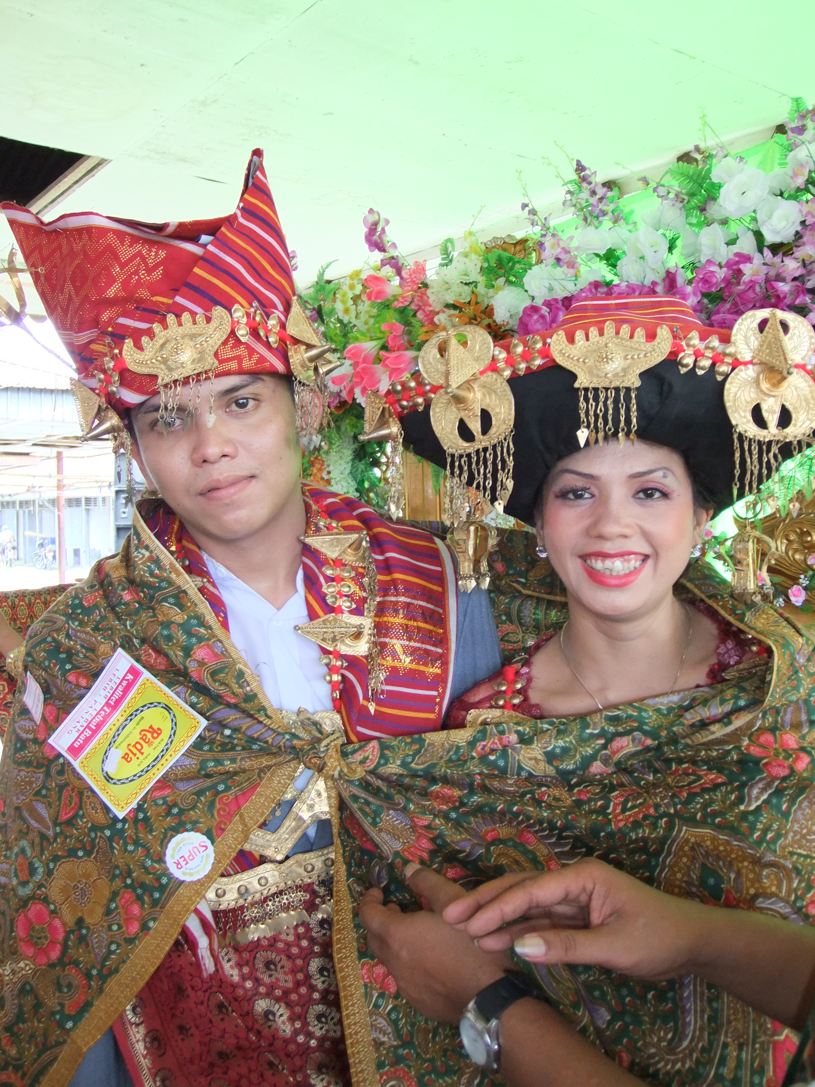 Batak Karo wedding, the couple being bound in a selendang (baby sling), a form of fertility ritual